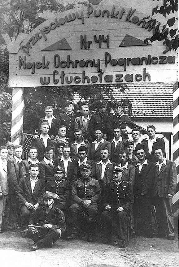 Border Protection Forces in Głuchołazy